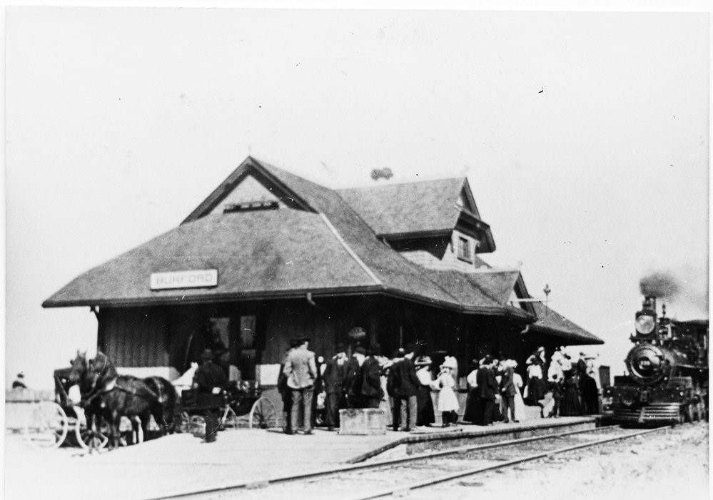 Burford, Ontario railway station circa 1905